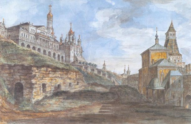 en: Fedor Alekseev Title